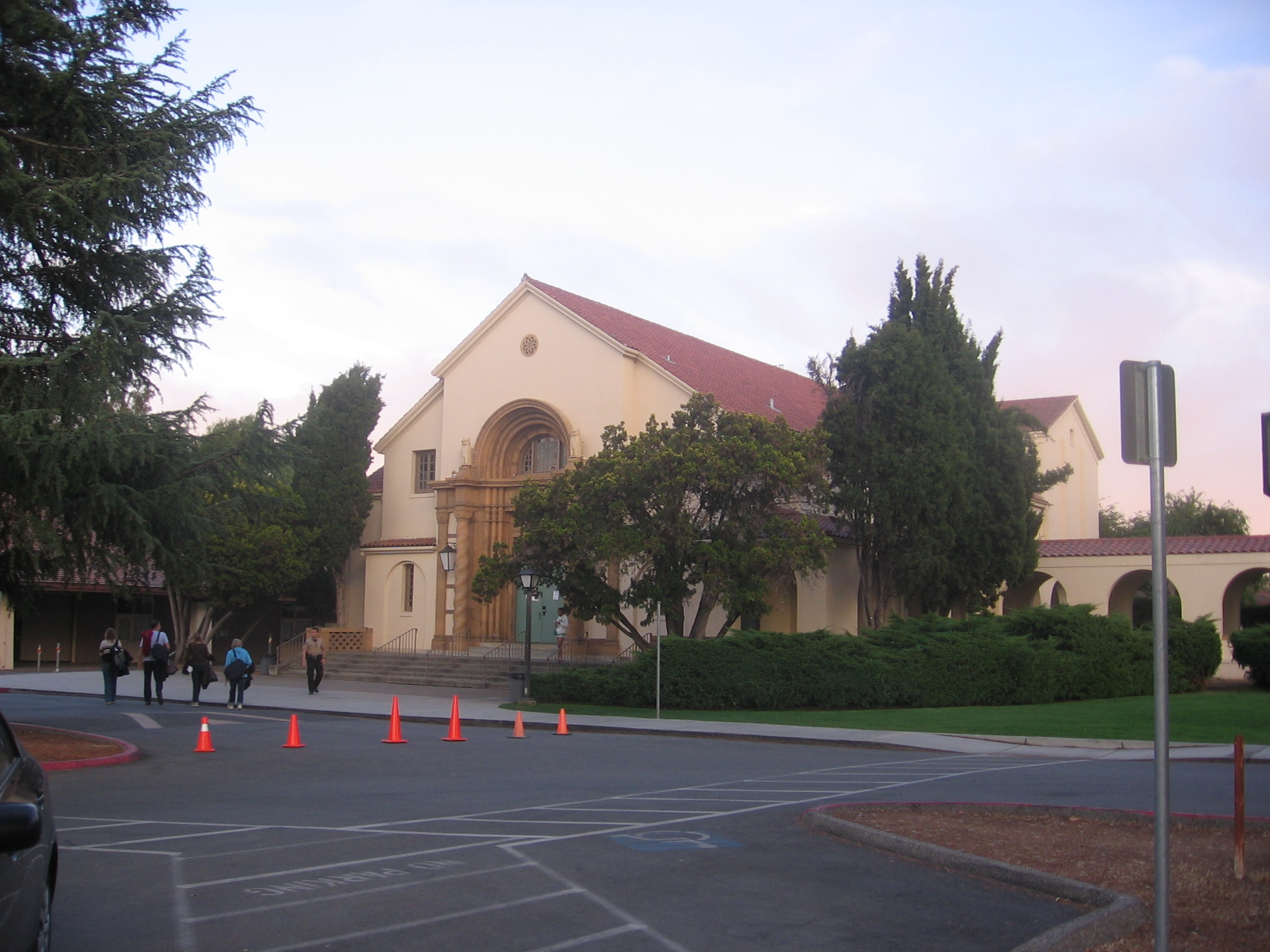 The Palo Alto High School in Palo Alto, California, USA.